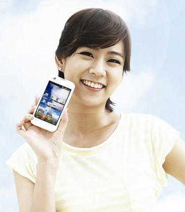 Kara in LG Optimus Bright advertisement